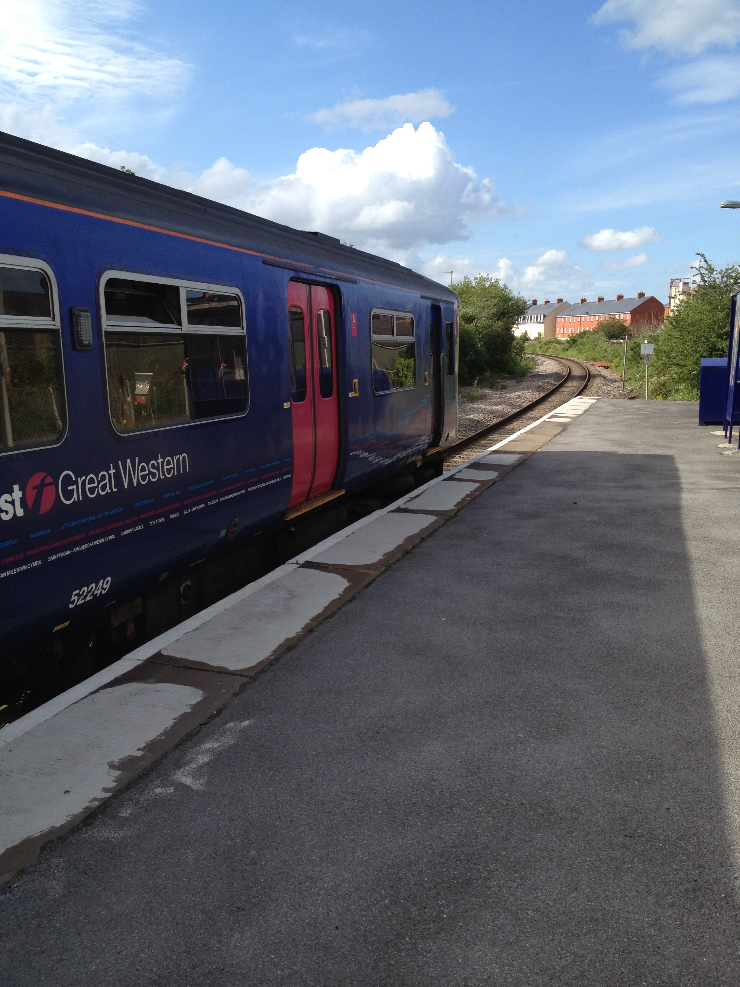 Train at Melksham headed for Swindon on the TransWilts line